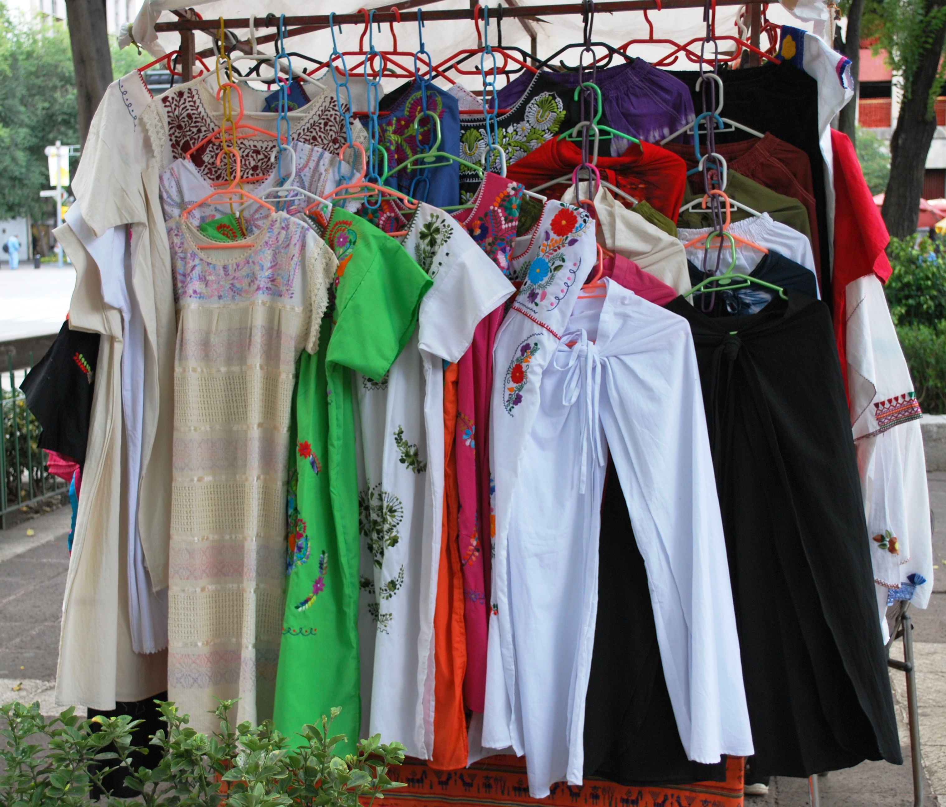 Tradional Mexican clothing for sale at the Plaza de la Solidaridad in the historic center of Mexico City